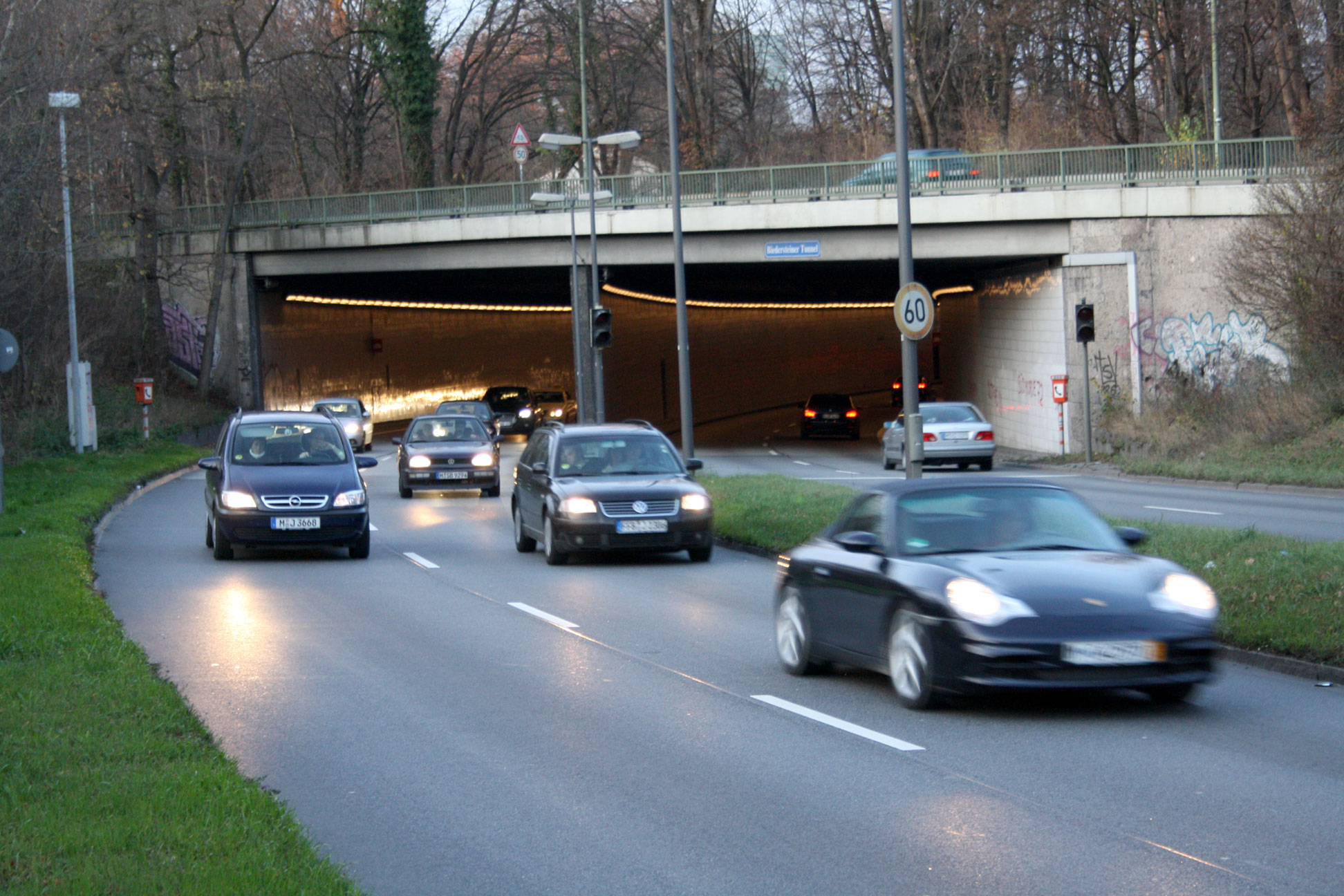 Biedersteiner Tunnel, south-eastern end